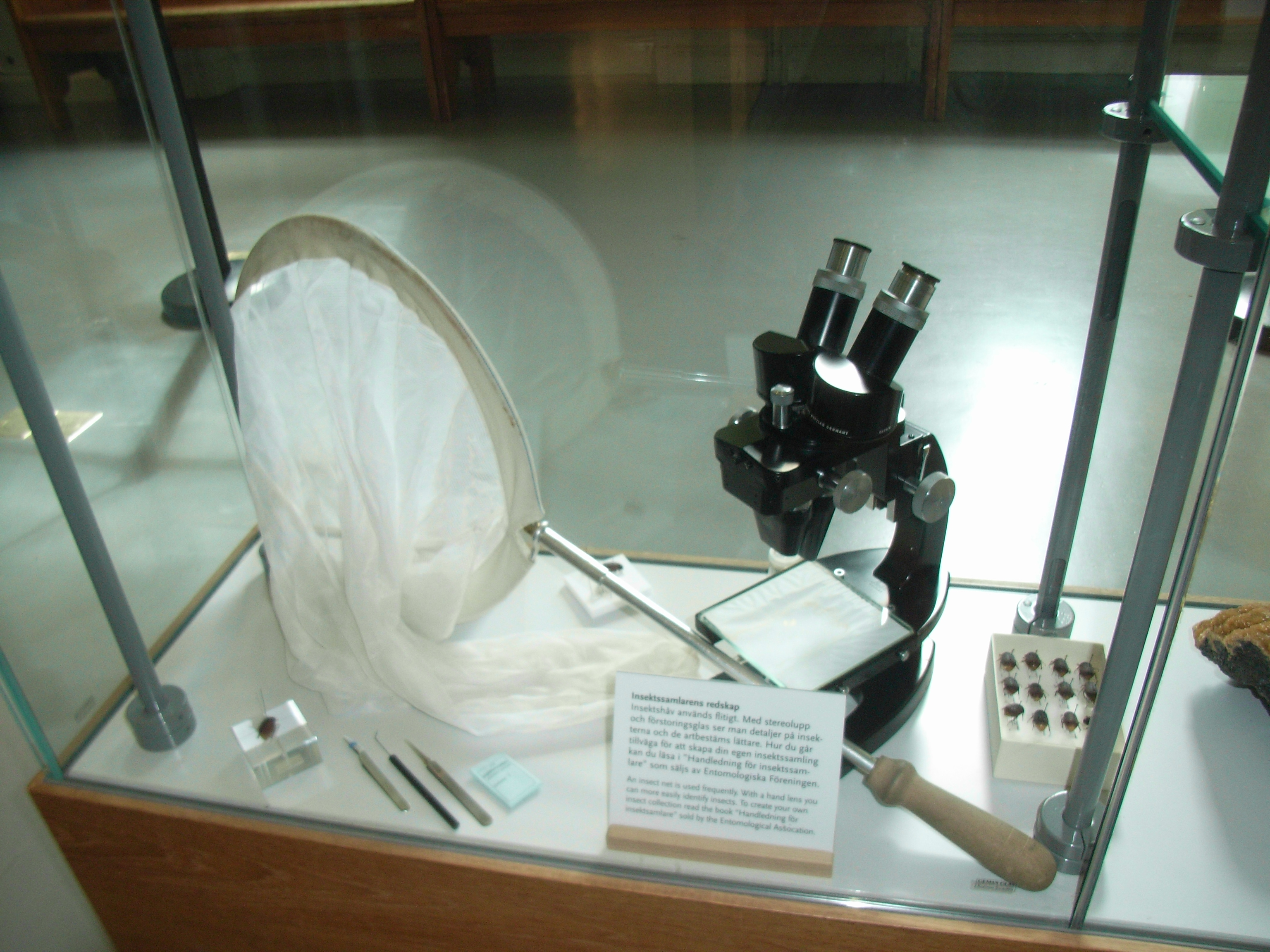 Naturhistoriska RiksmuseetIntroductory Gallery Insect collecting